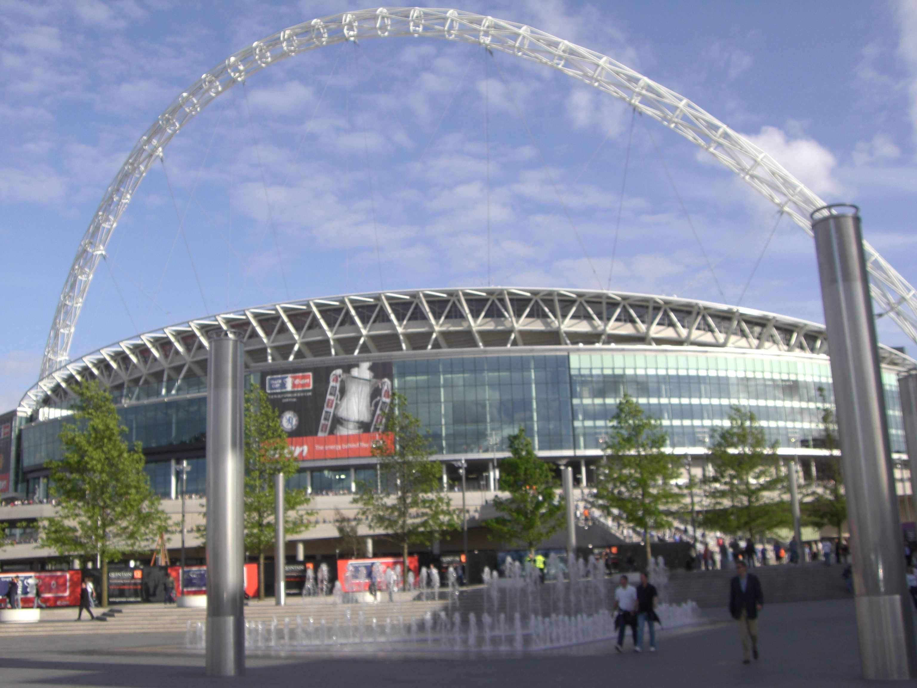 FA-cup final at New Wembley: Chelsea vs Man. United 1-0 a.e.t.